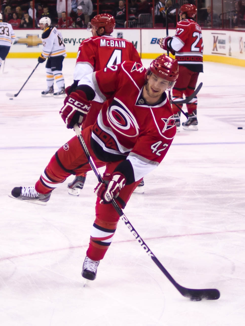 Brett Sutter, Canadian ice hockey player